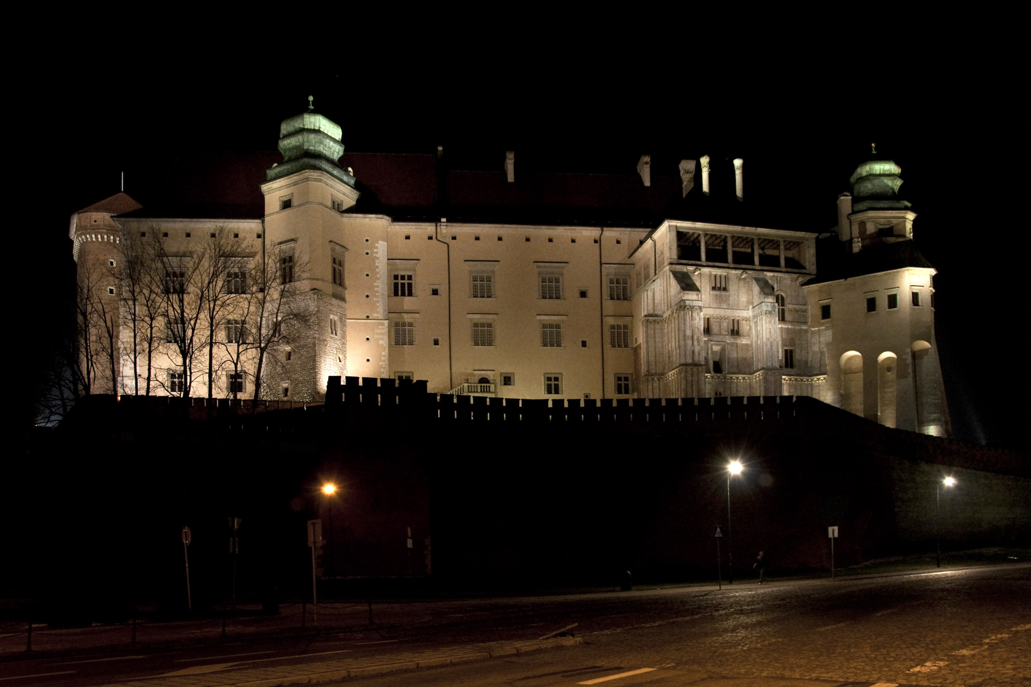 The Gothic Wawel Castle in Cracow, Poland.